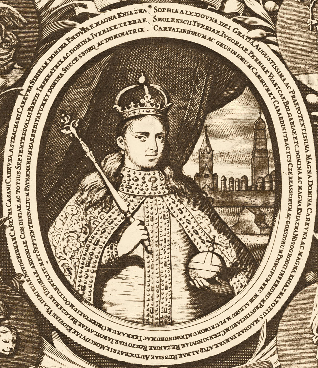 Sophia Alekseyevna (engraving by Leontij Tarasevich, 1680s)